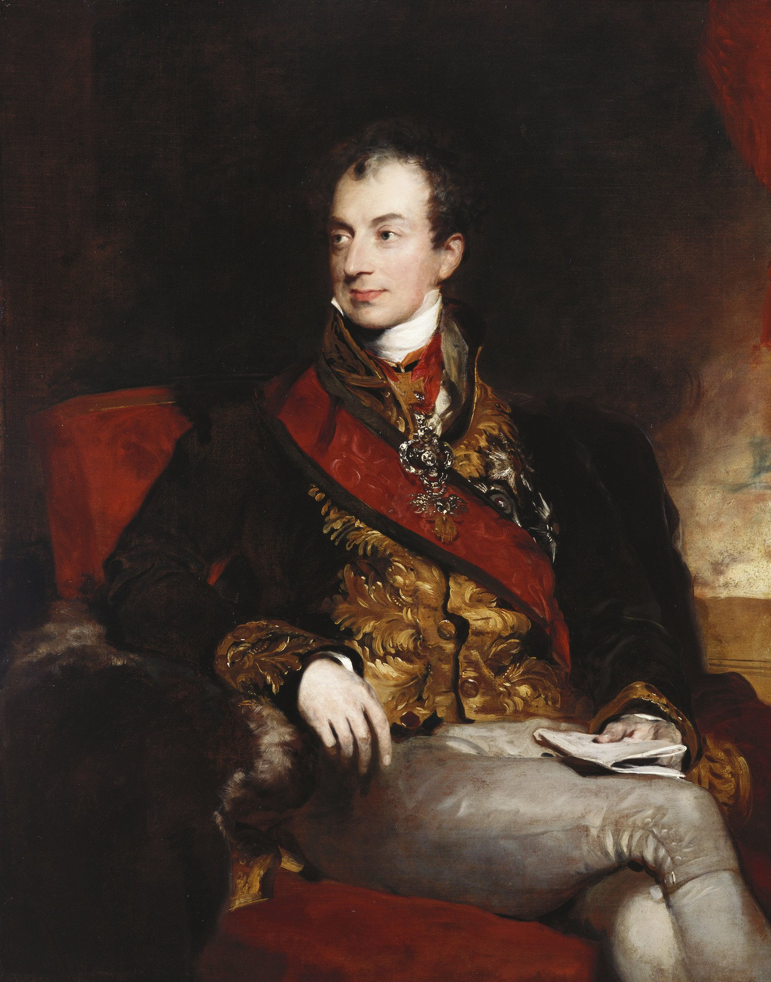 The original work was first exhibited in 1815, but probably revised in 1818/9 [1].